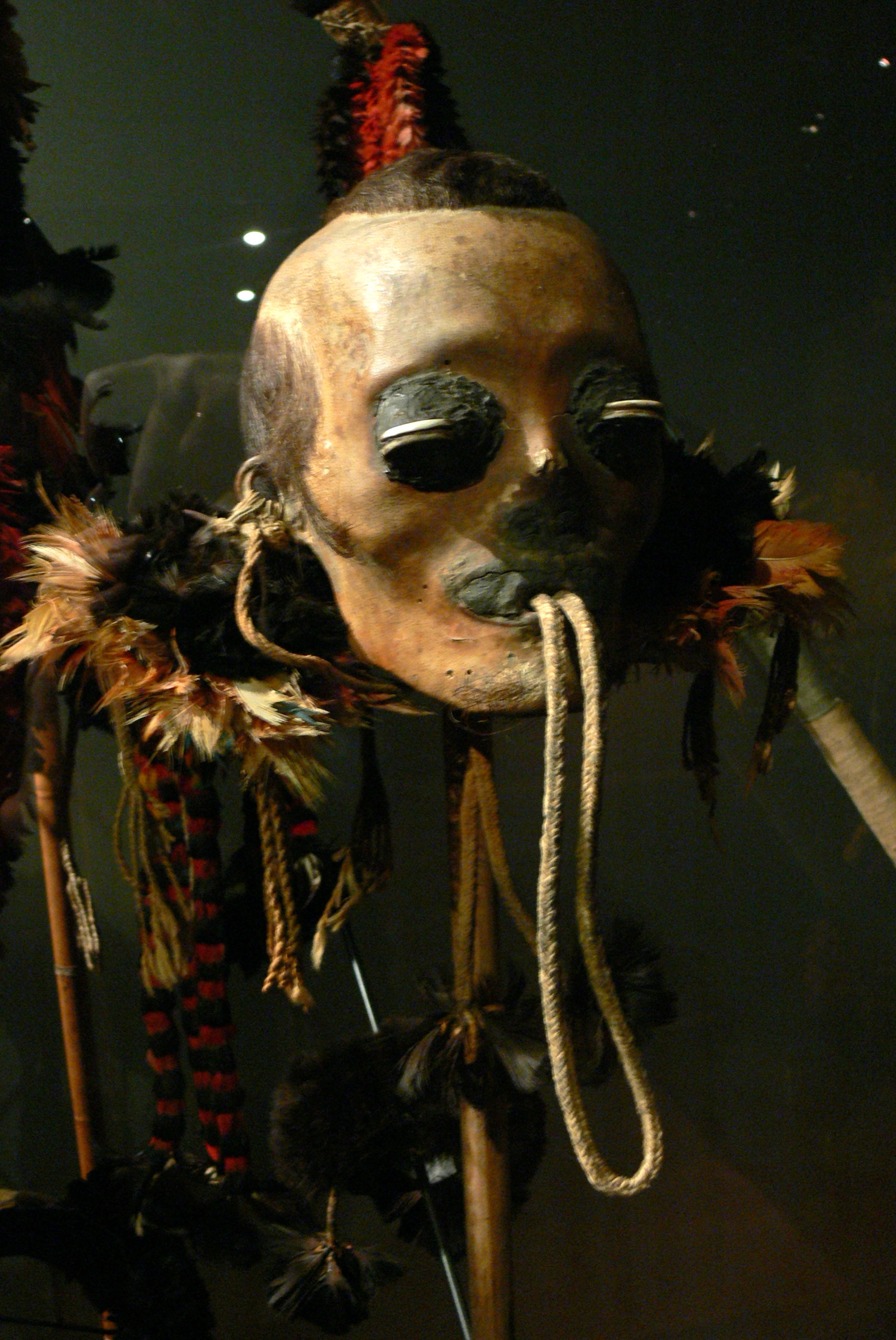 Museum of Ethnology (Vienna). Exhibition "Beyond Brazil": Ceremonial dress ( 1830 ) of the Munduruku, from Rio Tapajos, Brazil - Trophy head ( detail ).